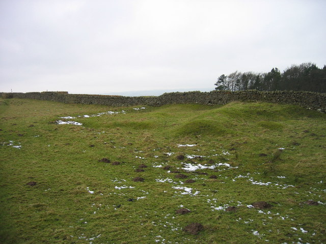 Milecastle 24, Hadrian's Wall. This is the site of a Roman Milecastle.